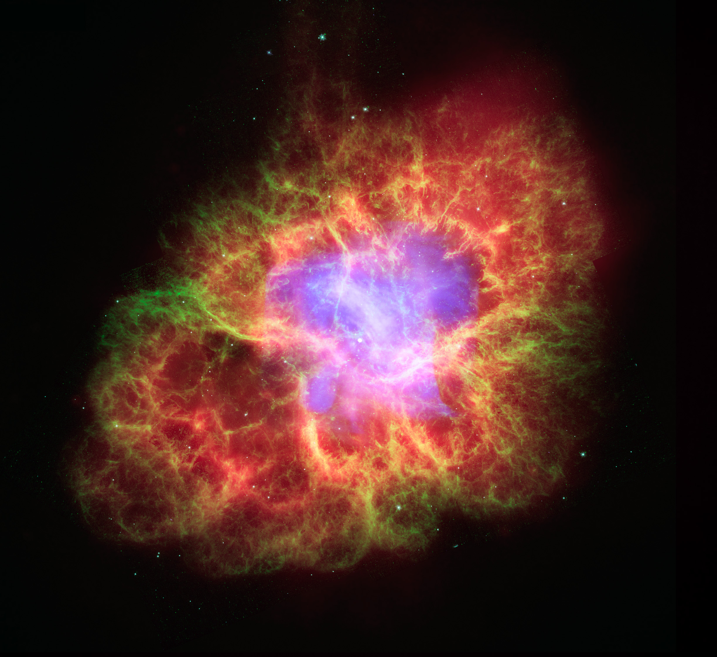 Crab Nebula (NGC 1952). This composite image uses data from three of NASA's Great Observatories. The Chandra X-ray image is shown in light blue, the Hubble Space Telescope optical images are in green and dark blue, and the Spitzer Space Telescope's infrared image is in red. The size of the X-ray image is smaller than the others because ultrahigh-energy X-ray emitting electrons radiate away their energy more quickly than the lower-energy electrons emitting optical and infrared light. The neutron star, which has the mass equivalent to the sun crammed into a rapidly spinning ball of neutrons twelve miles across, is the bright white dot in the center of the image.